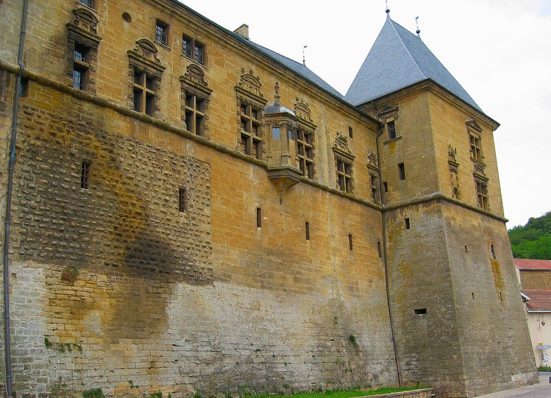 Cons-la-Granville Castle (Meurthe-et-Moselle, France)